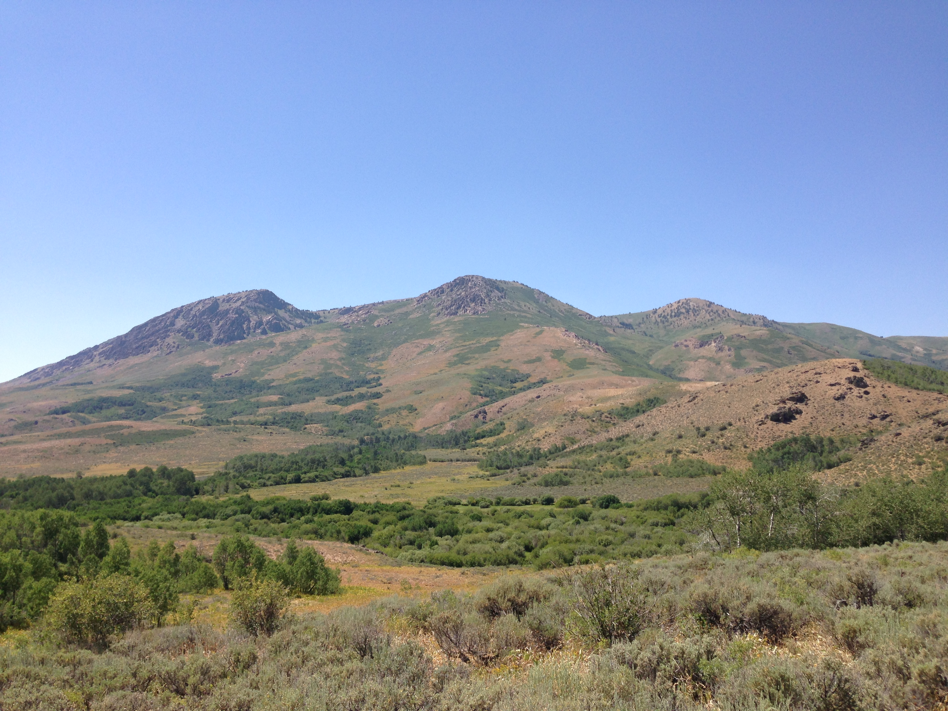 View of Porter Peak in the Bull Run Mountains of Nevada from Elko County Route 729 (Trail Creek Road)